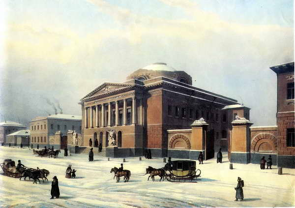 Moscow in the 19th century - Solyanka Street, the Board of Trustees building